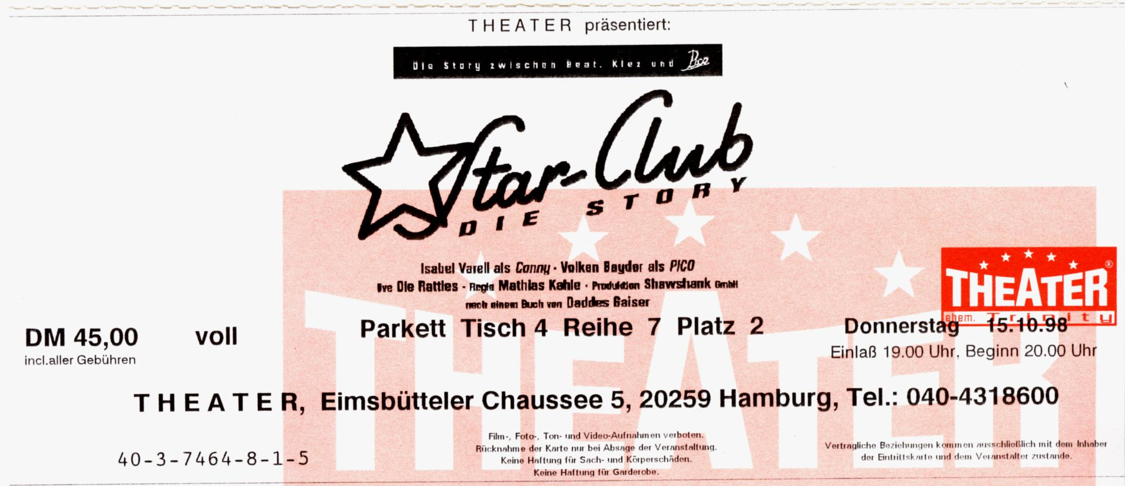 Ticket for Star-Club-Musical "Pico" with The Rattles, 1998